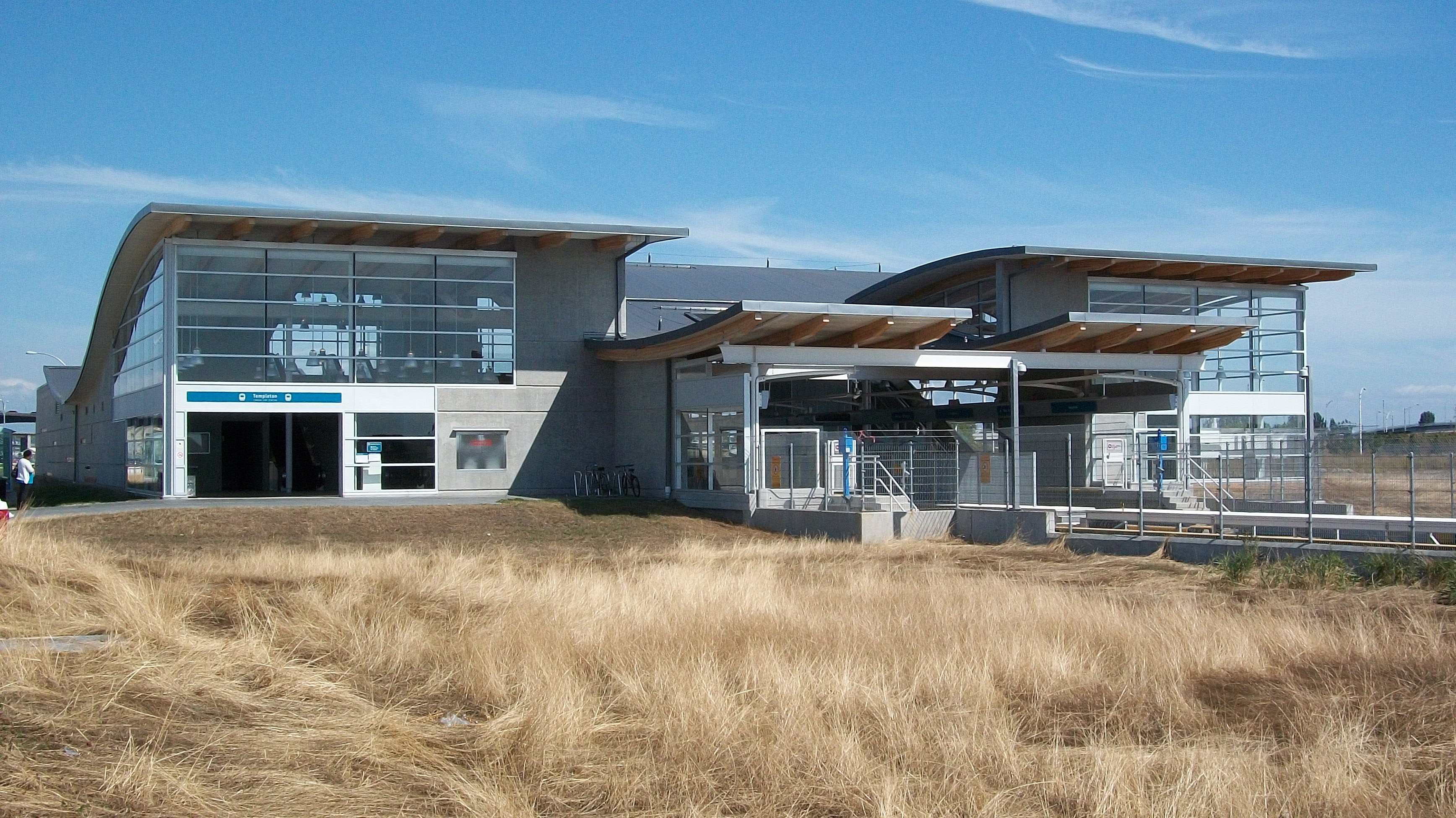 Templeton Station, an at-grade SkyTrain station on Sea Island